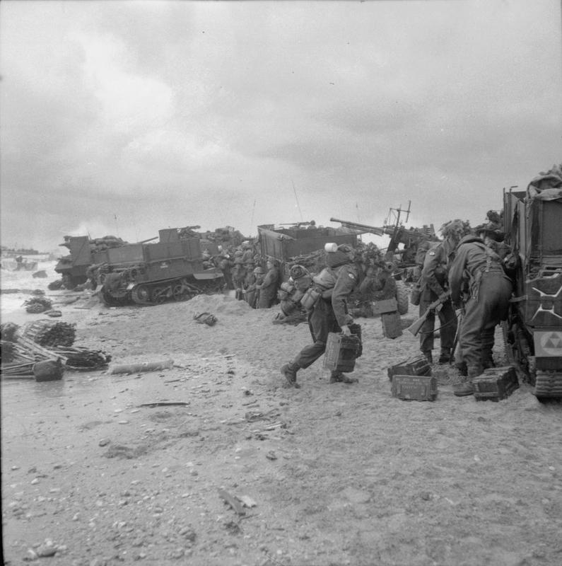 D-day - British Forces during the Invasion of Normandy 6 June 1944 3rd Division troops sheltering behind Universal Carriers (one with a towed 6-pdr AT gun) on Queen beach, Sword area, 6 June 1944. An M10 Wolverine 3-in self-propelled gun and a Bofors anti-aircraft gun can be seen in the background.